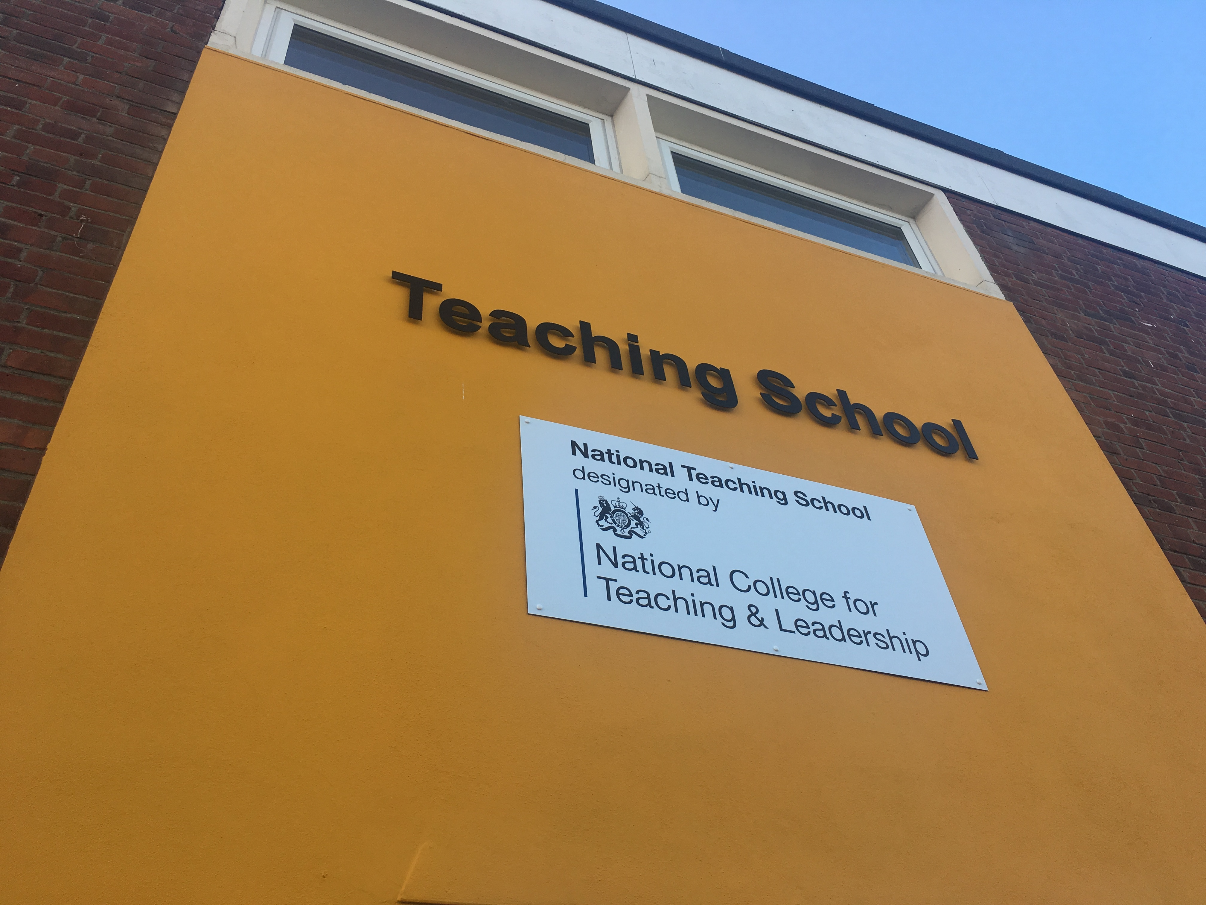 New signage for the newly designated Teaching School